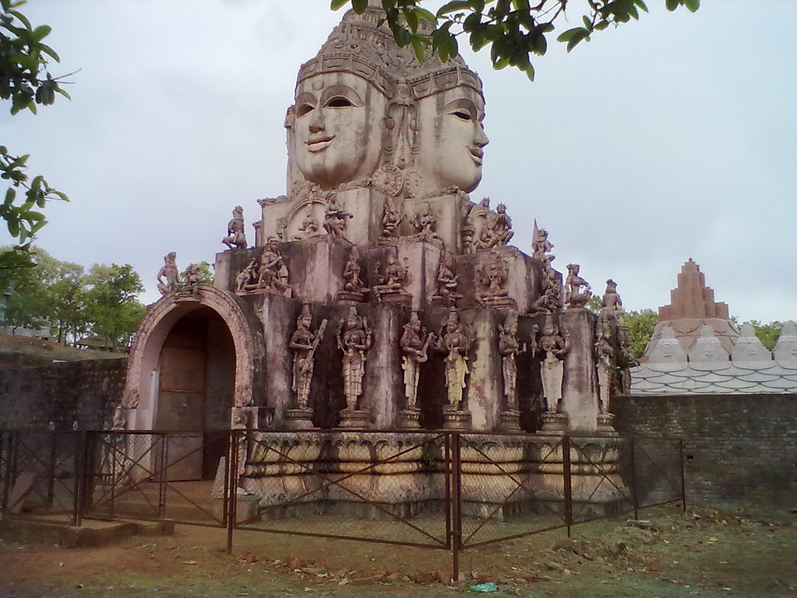 tantra mandir